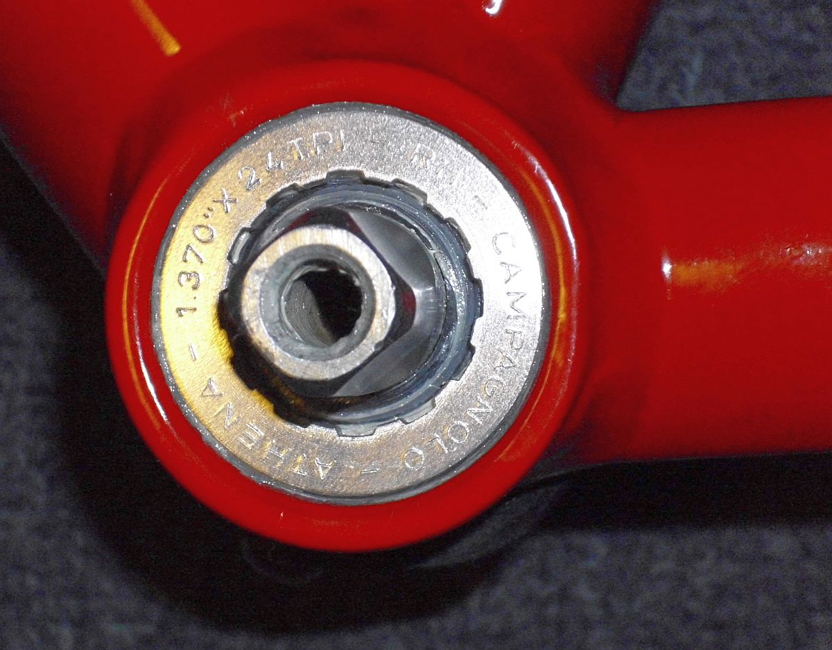 Campagnolo Athena bottom bracket